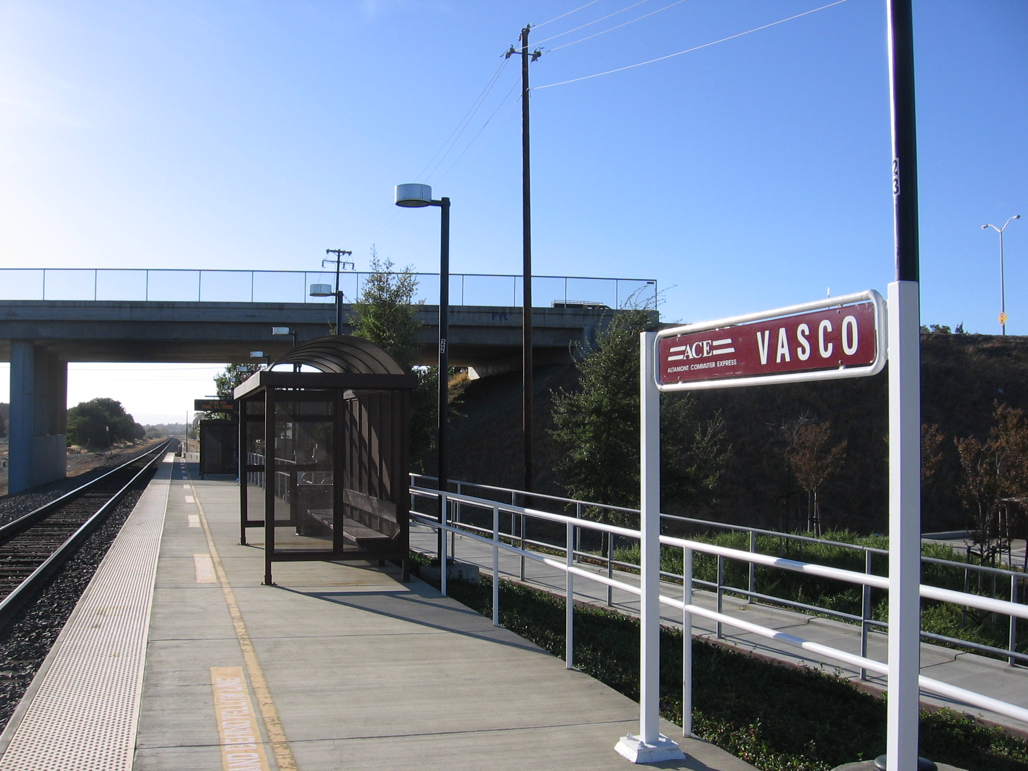 The Vasco Road (ACE station) in eastern Livermore, California, USA.